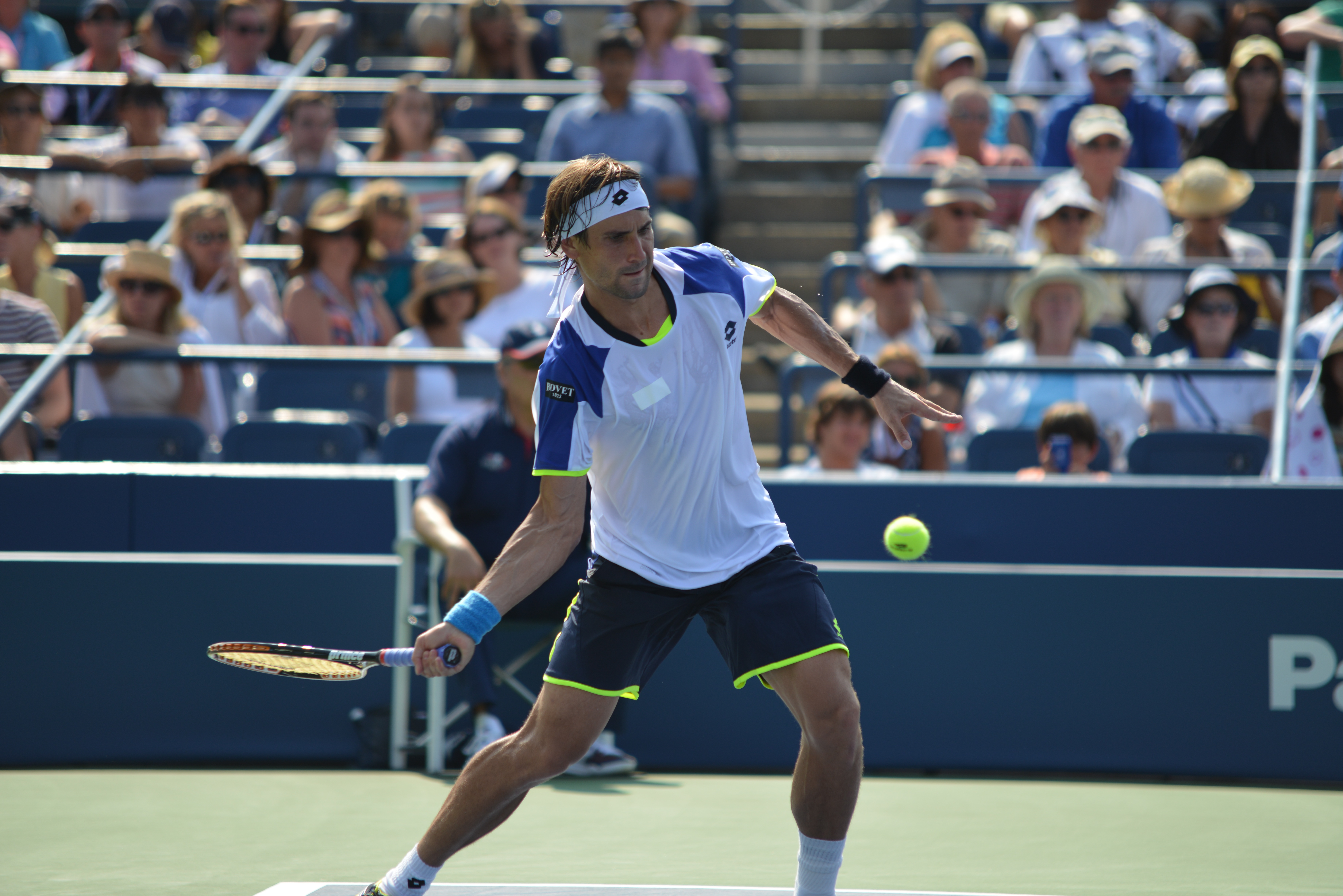 David Ferrer at the 2013 US Open